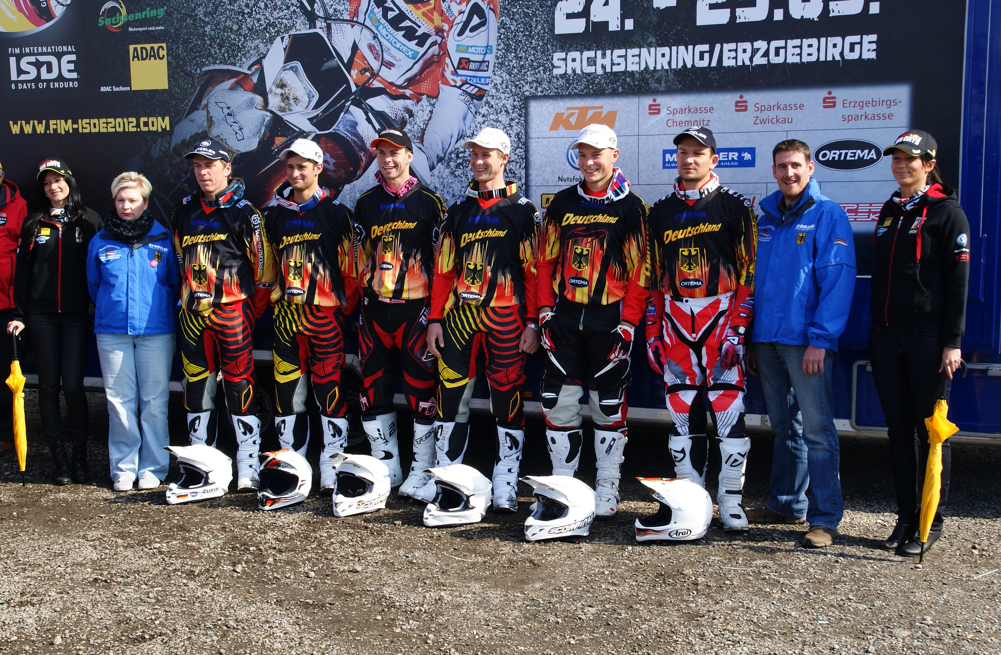 The making of this document was supported by the Community-Budget of Wikimedia Germany. 87. ISDE Red Bull Six Days 2012 Trophy Team Germany (Dennis Schröter, Edward Hübner, Derrick Görner, Marco Neubert, Christian, Weiß, Marcus Kehr)